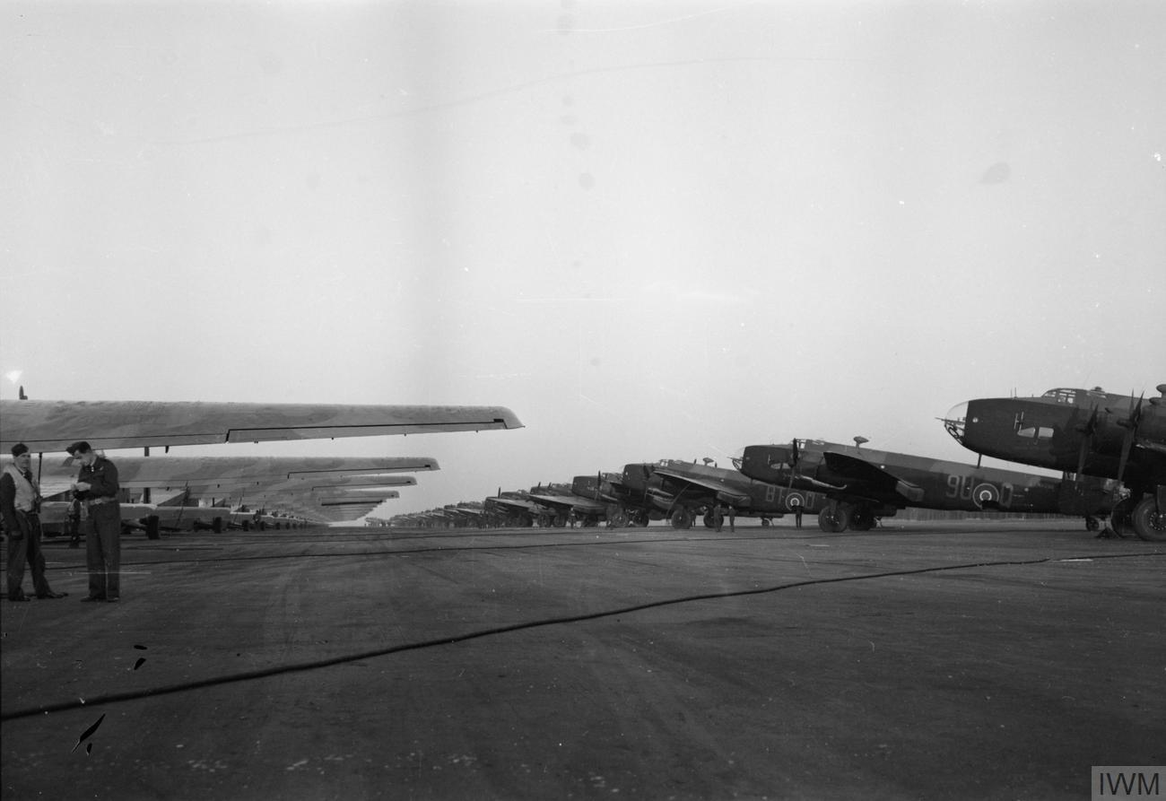 Royal Air Force- Fighter Command, No. 38 (airborne Forces) Group RAF. Operation VARSITY. A line of General Aircraft Hamilcars (left) with their tow ropes attached to Handley Page Halifax A Mark VII glider tugs of Nos. 298 and 644 Squadrons RAF, lined up at Woodbridge, Suffolk, before the evening take off for the assault on the Rhine.